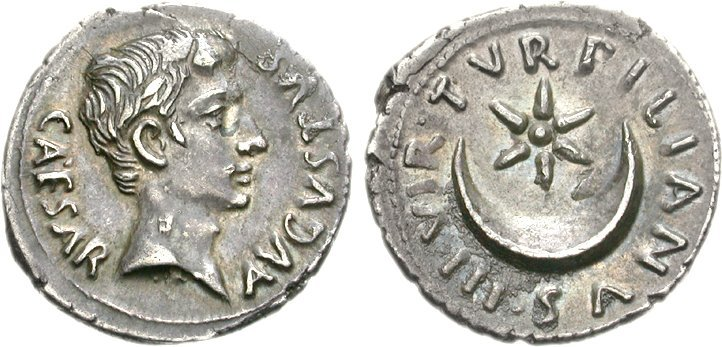 Augustus. 27 BC-AD 14. AR Denarius (3.92 g, 3h). Rome mint. P. Petronius Turpilianus, moneyer. Struck 19/8 BC. CAESAR AVGVSTVS, bare head right TVRPILIANVS • III • VIR •, six-pointed star above large crescent. RIC I 300; RSC 495; BMCRE 32-4; BN 161-6. Near EF, toned. flan flaw on obverse, minor deposits under tone. Ex Gilbert Steinberg Collection (Numismatica Ars Classica, 16 November 1994), lot 157. A star within a crescent moon appears above Tarpeia on the prototype of L. Titurius Sabinus.